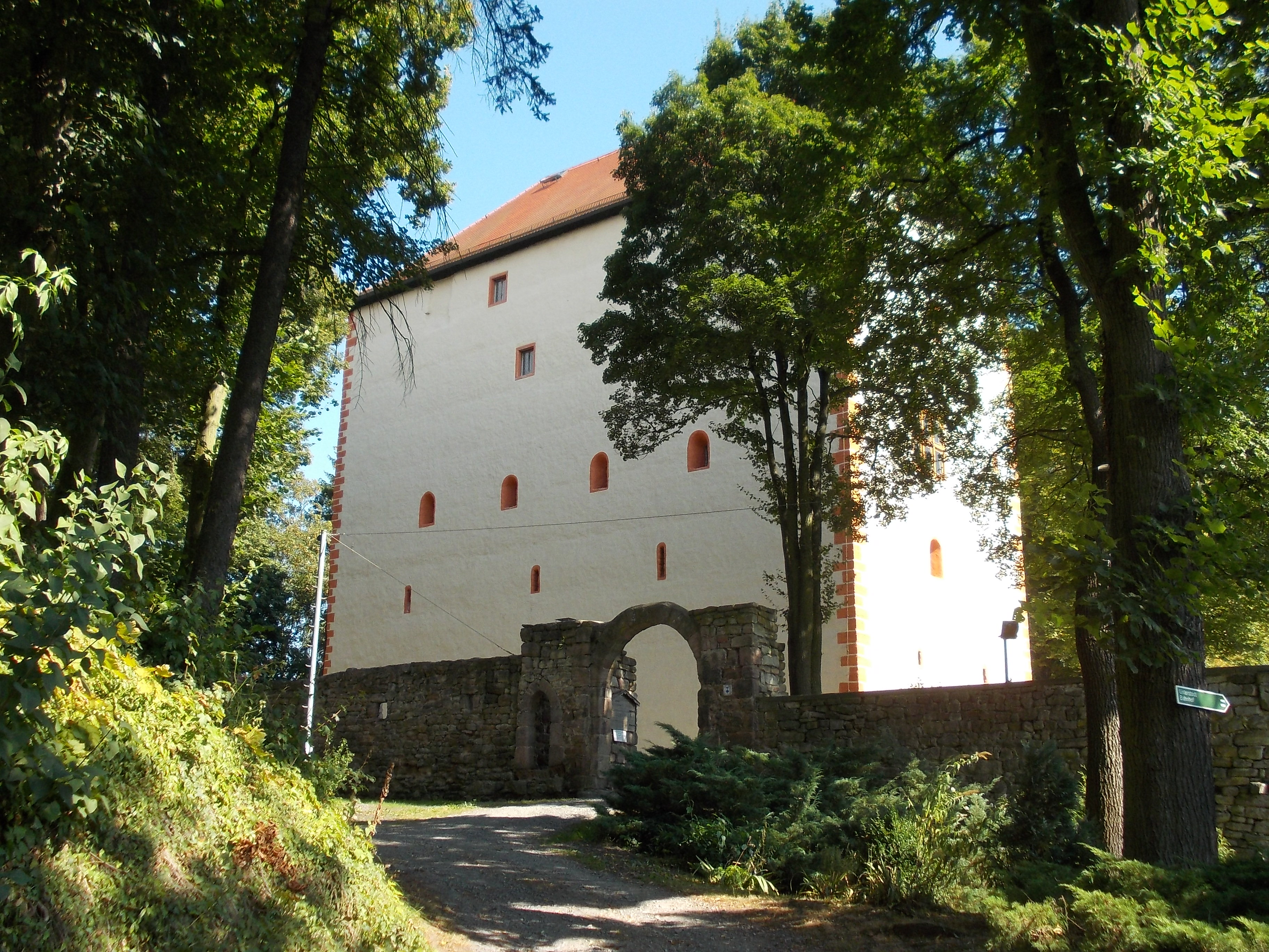 Kemenate, the only remaining building of Orlamünde Castle (district: Saale-Holzlandkreis, Thuringia)